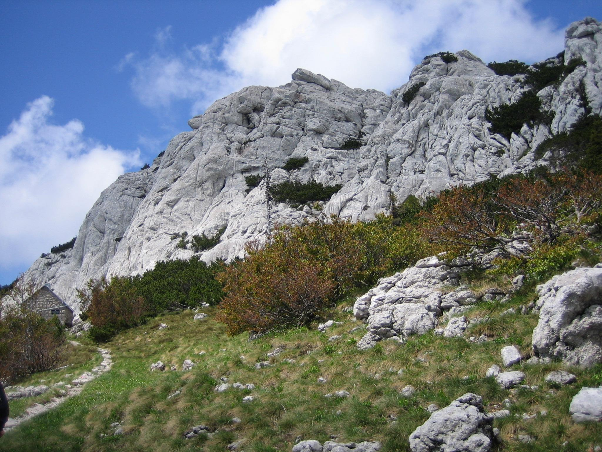 Rossi's refuge and Premužić trail, Croatia.